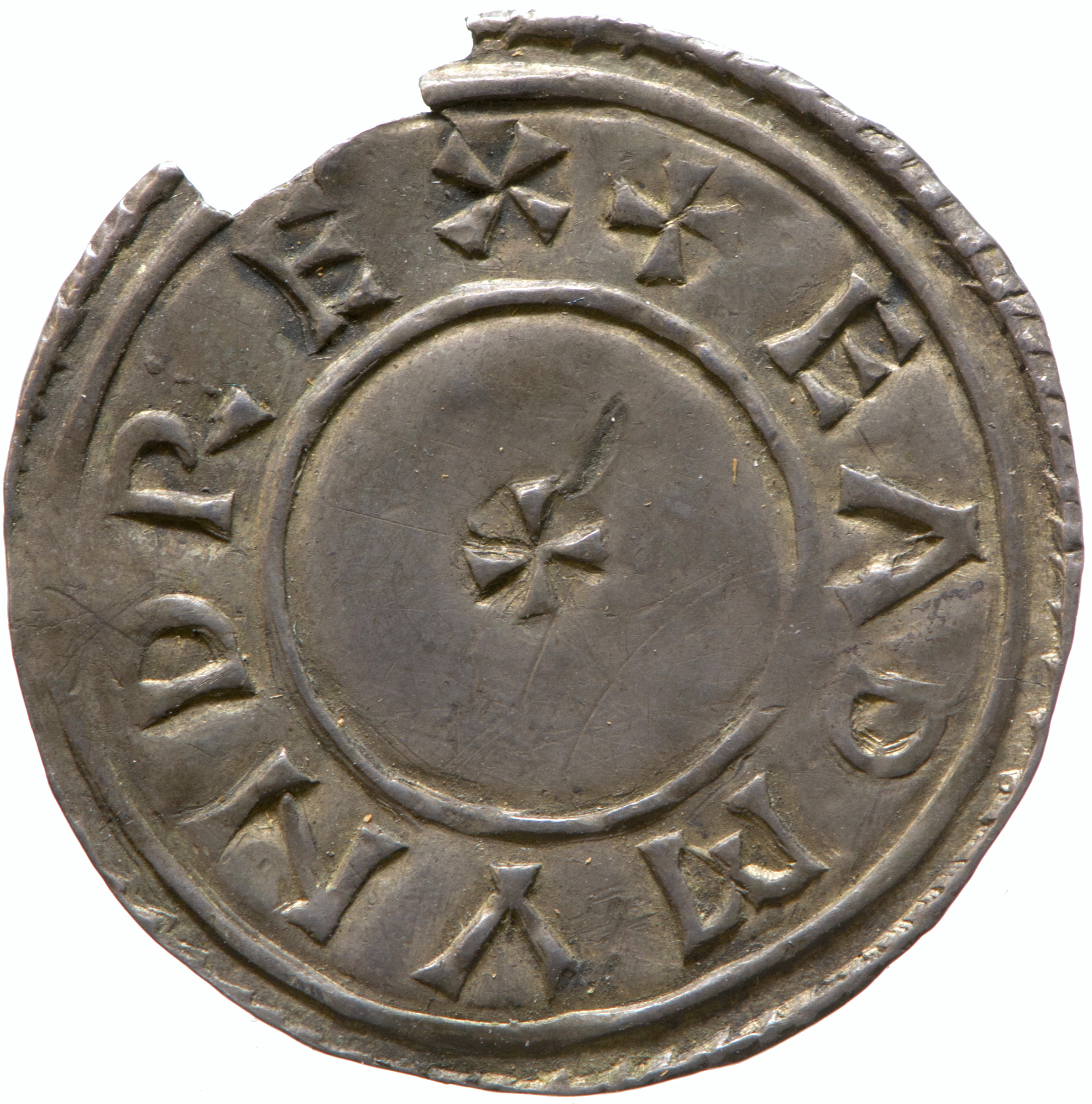 Obverse (front) of a silver penny of Edmund I Small cross